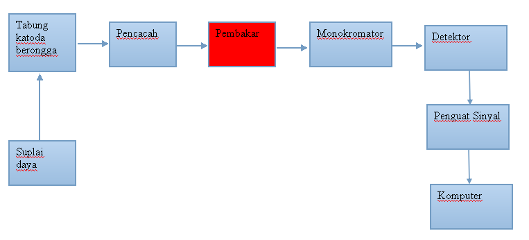 Bagan alir kerja spektroskopi serapan atom